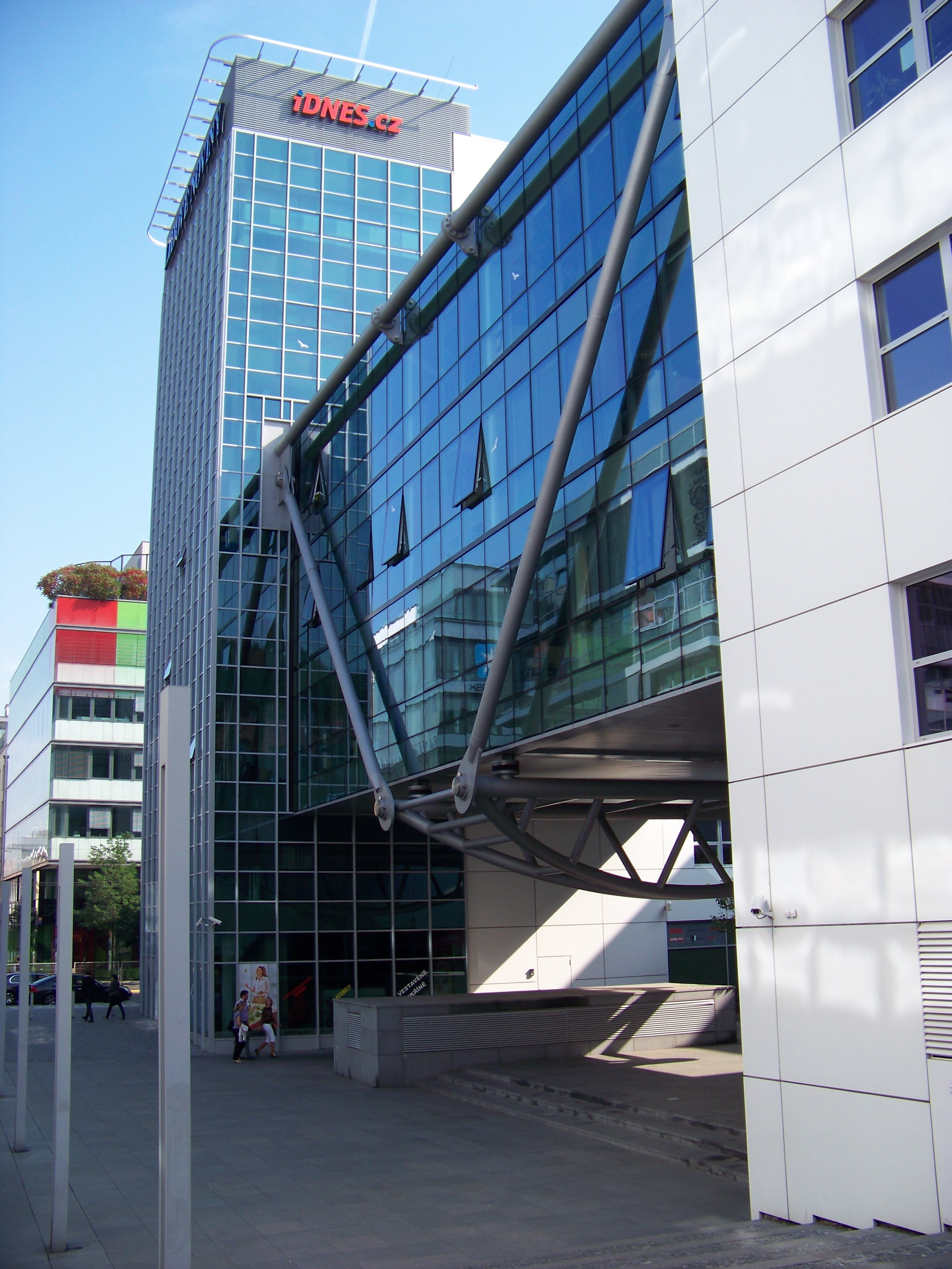 Prague-Smíchov, the Czech Republic. Karla Engliše street, Anděl Media Centrum. - OpenStreetMap(Info)